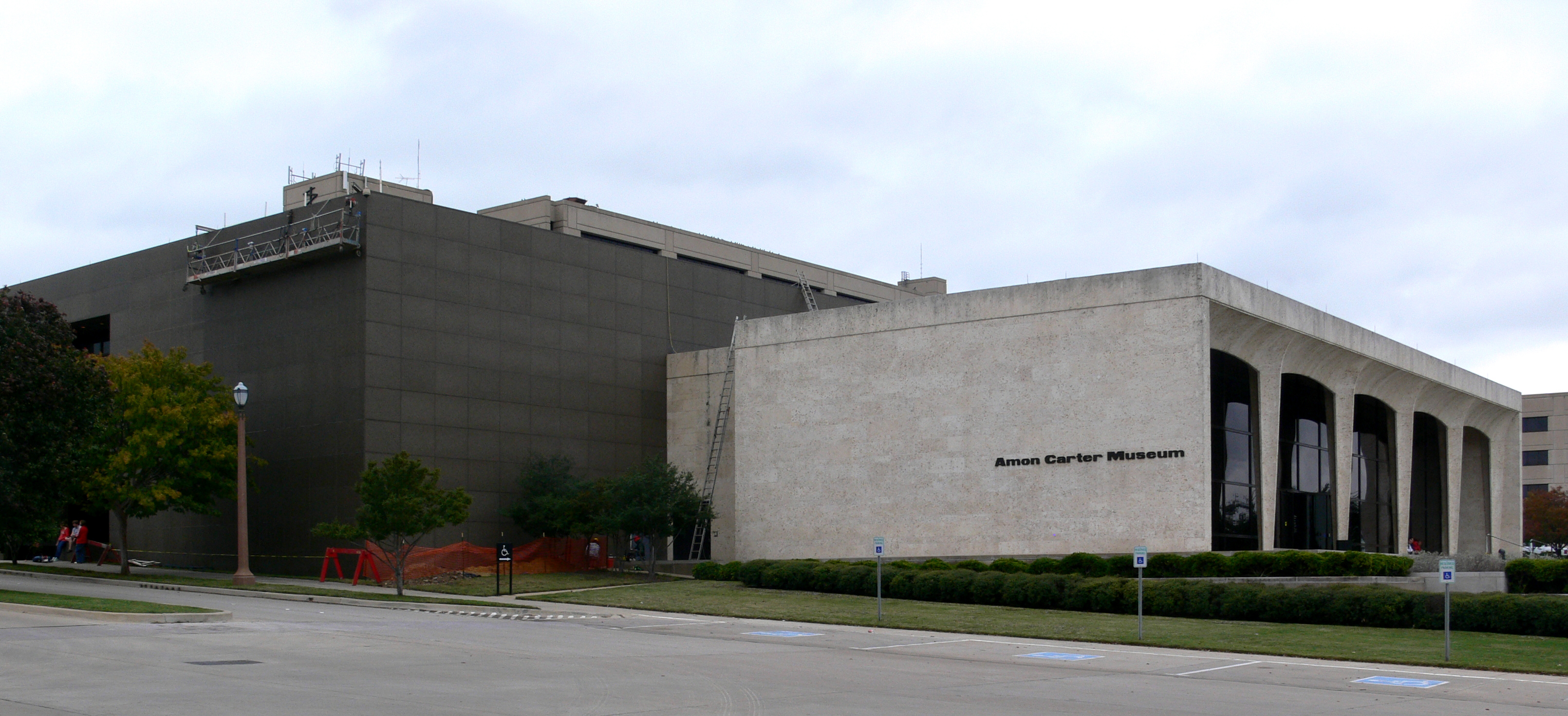 Amon Carter Museum, Fort Worth, Texas (Architect: Philip Johnson)